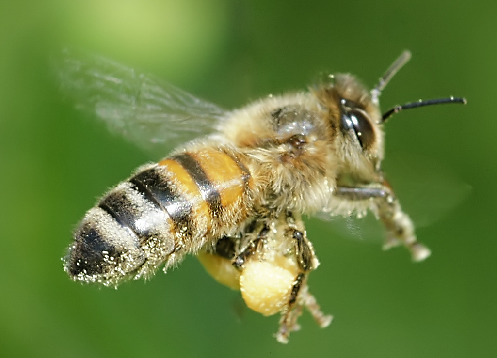 Honeybee at Torfbroek, Belgium